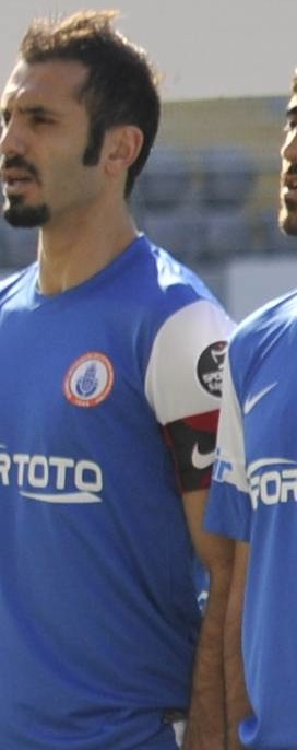 Foto : Koray Geçgel